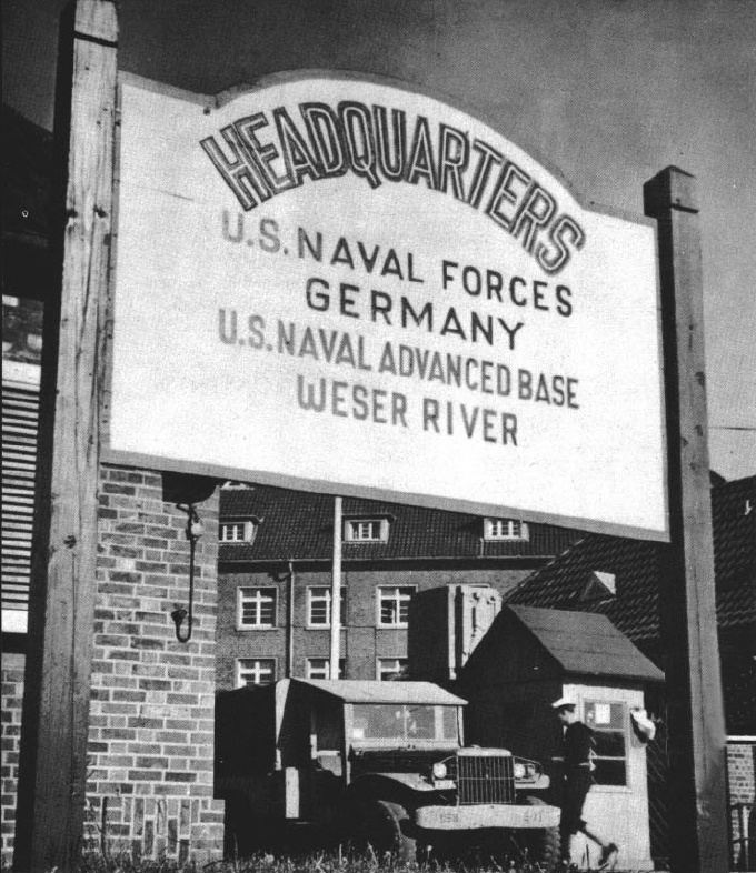 The Headquarters U.S. Naval Forces Germany, U.S. Advanced Naval Base Weser River, at Bremerhaven, Germany.